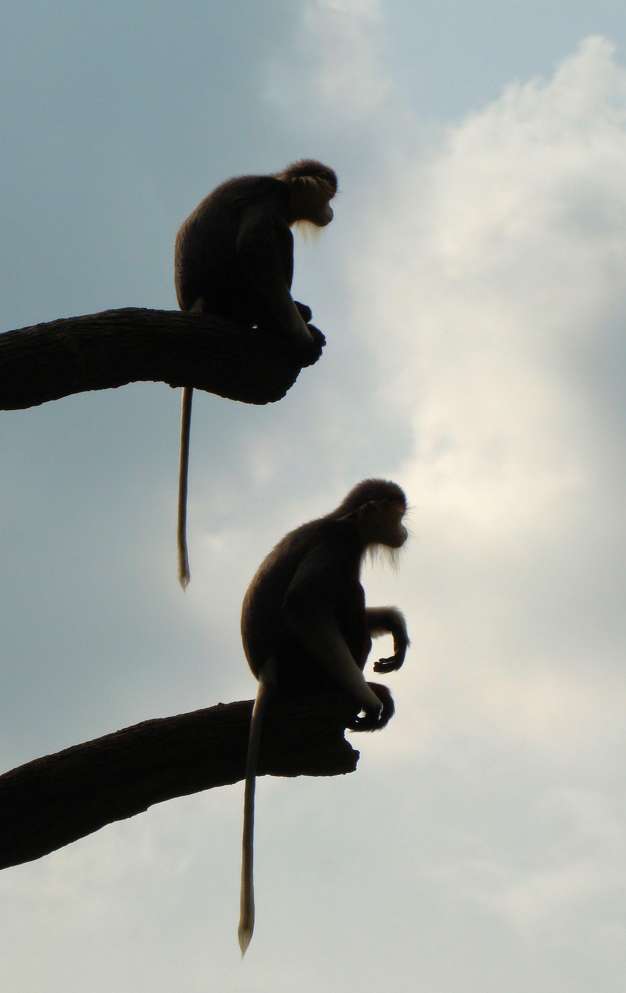 Red-shanked doucs in profile in Singapore Zoo